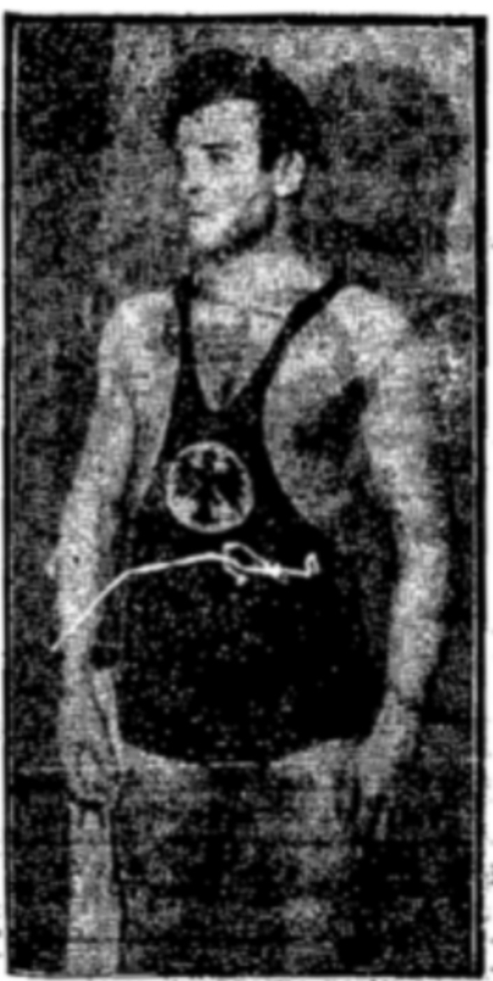 Kurt Hornfischer (1910-1958), German sports wrestler